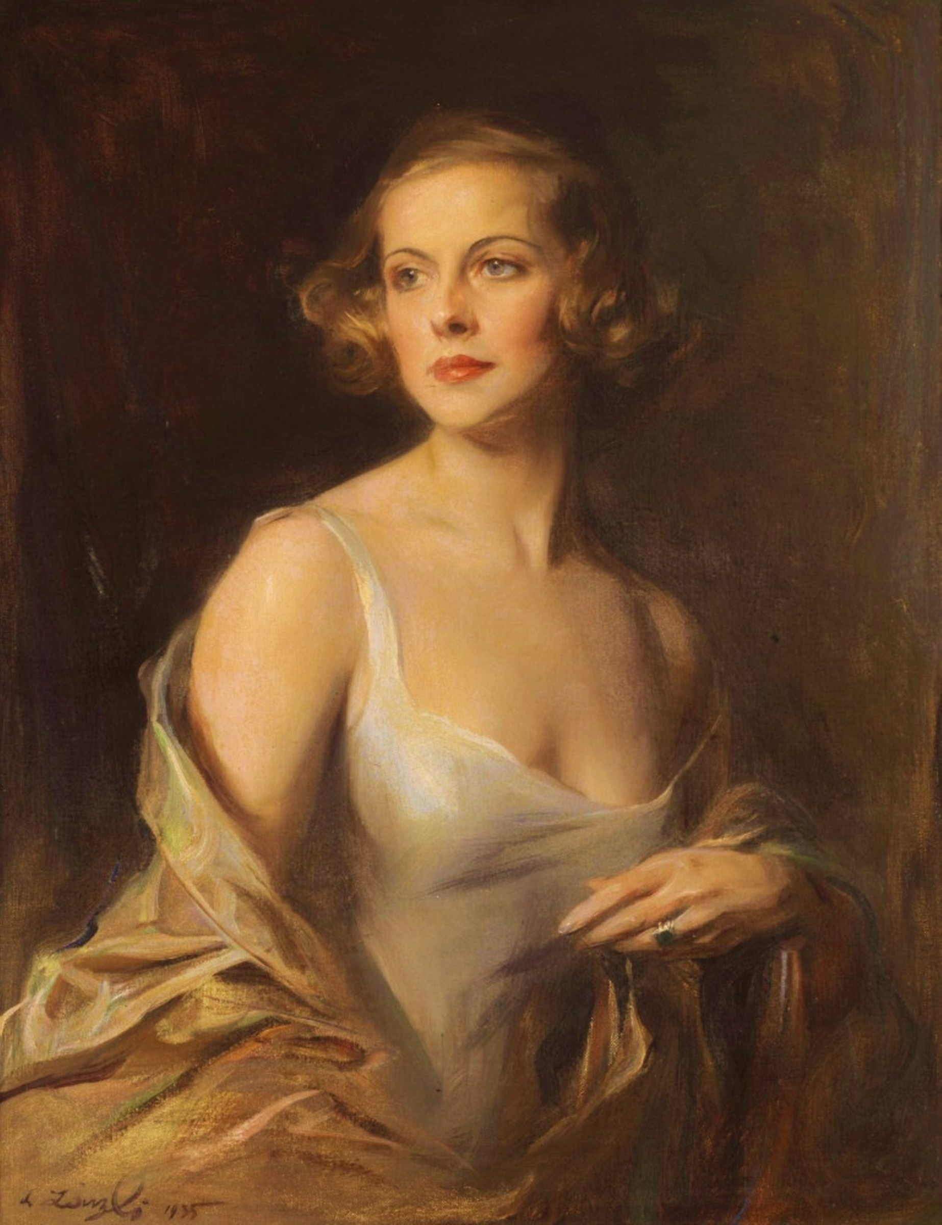 Hélène Charlotte de Berquely was born on 30 October 1908, the daughter of Hungarian-born Maria Magdalena de Csanády (born 1890) and Charles de Berquely. Her mother married Franklin Thomas Grant Richards (1872-1948), was a British publisher and writer, on 2 July 1915, who became her adoptive father. Hélène married William John Kirwan-Taylor (1905-1994) at St. George’s, Hanover Square, in 1928. Hélène died on 10 April 2004 at the age of ninety-five.